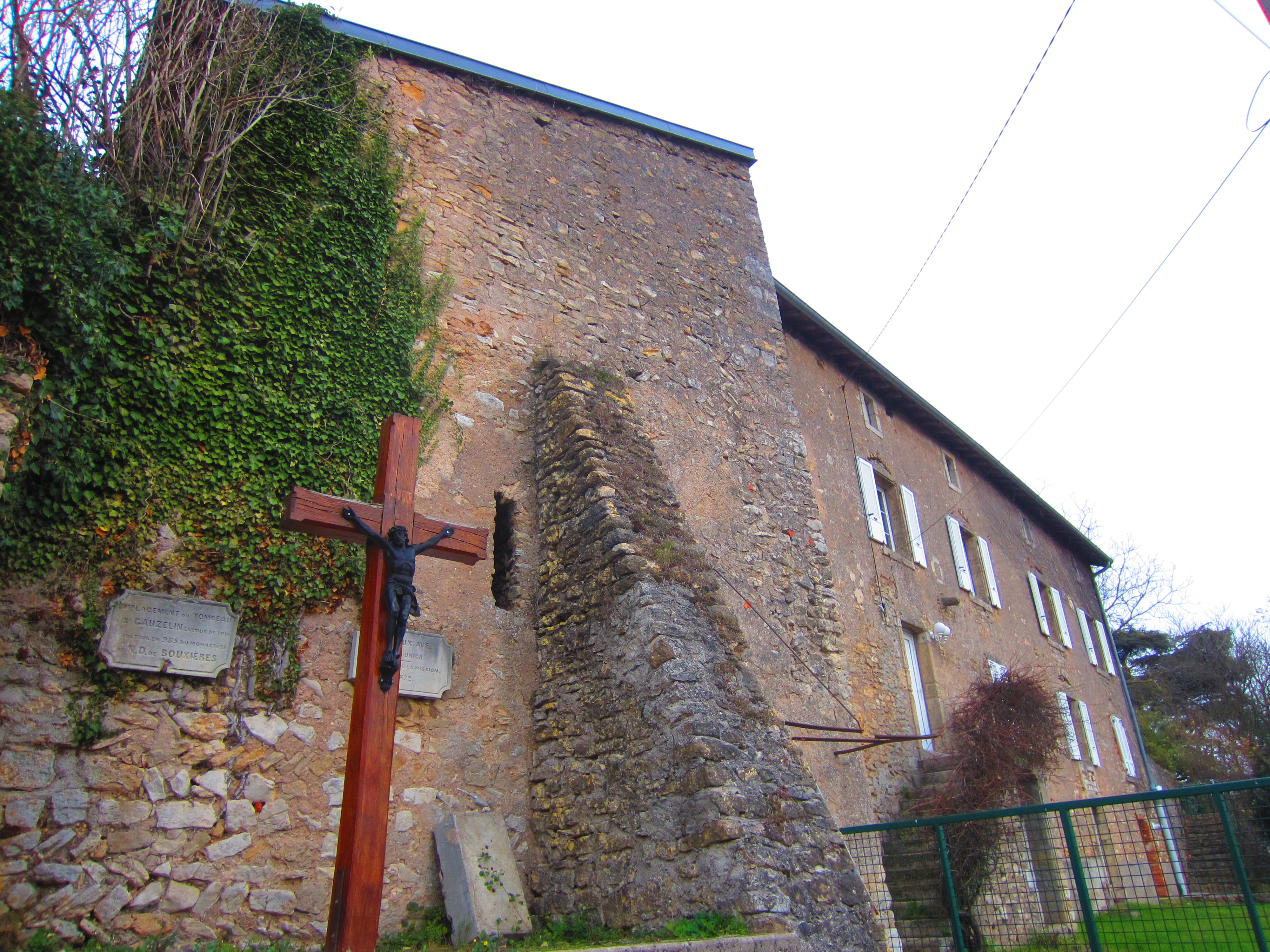 Abbaye Bouxieres Dames